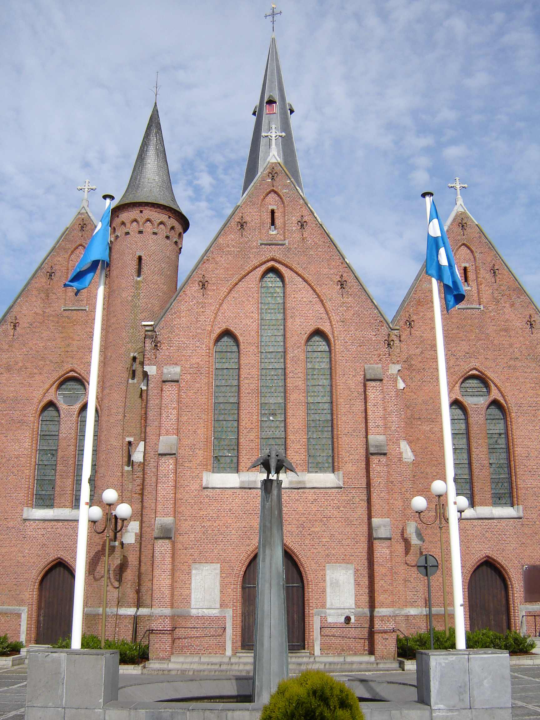 Saint Martinus Church in Koekelare, West-Flanders, Belgium. Entrance of the church, on the Concertplain